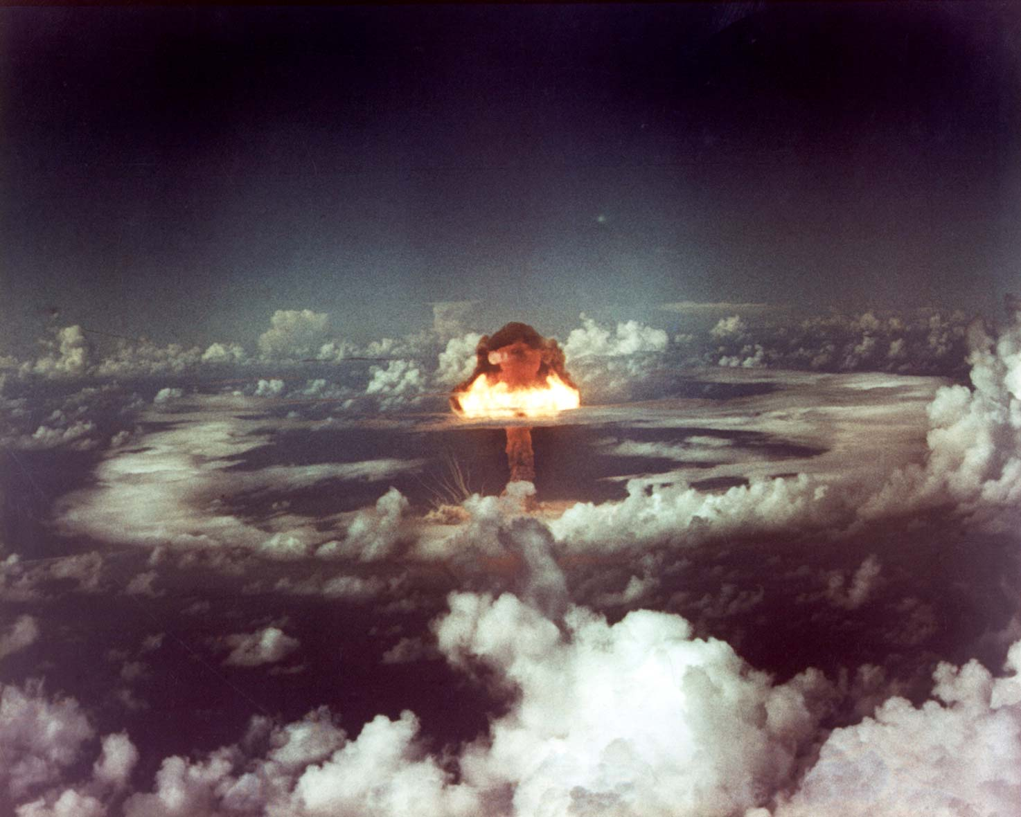 "Operation Ivy, KING Event - The KING Event was detonated on 15 November 1952, Enewetak Atoll."